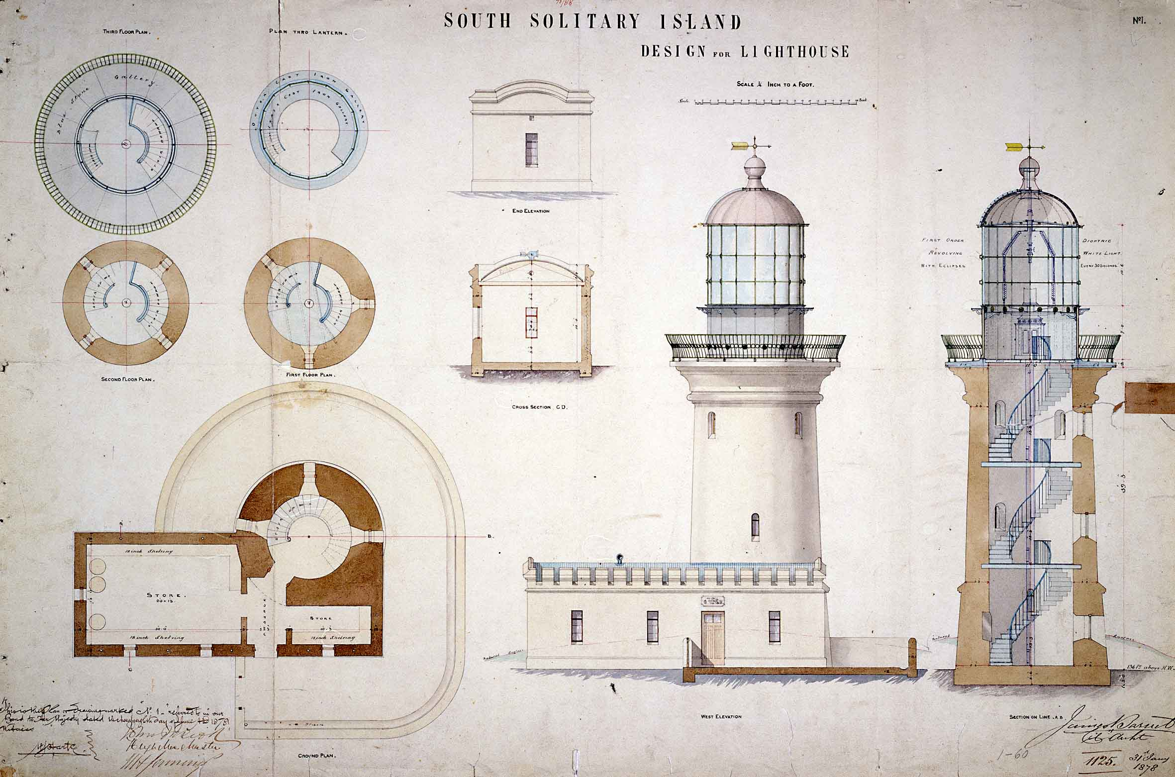 South Solitary Island Light, design for lighthouse, by James Barnet - NSW Colonial Architect, 1878